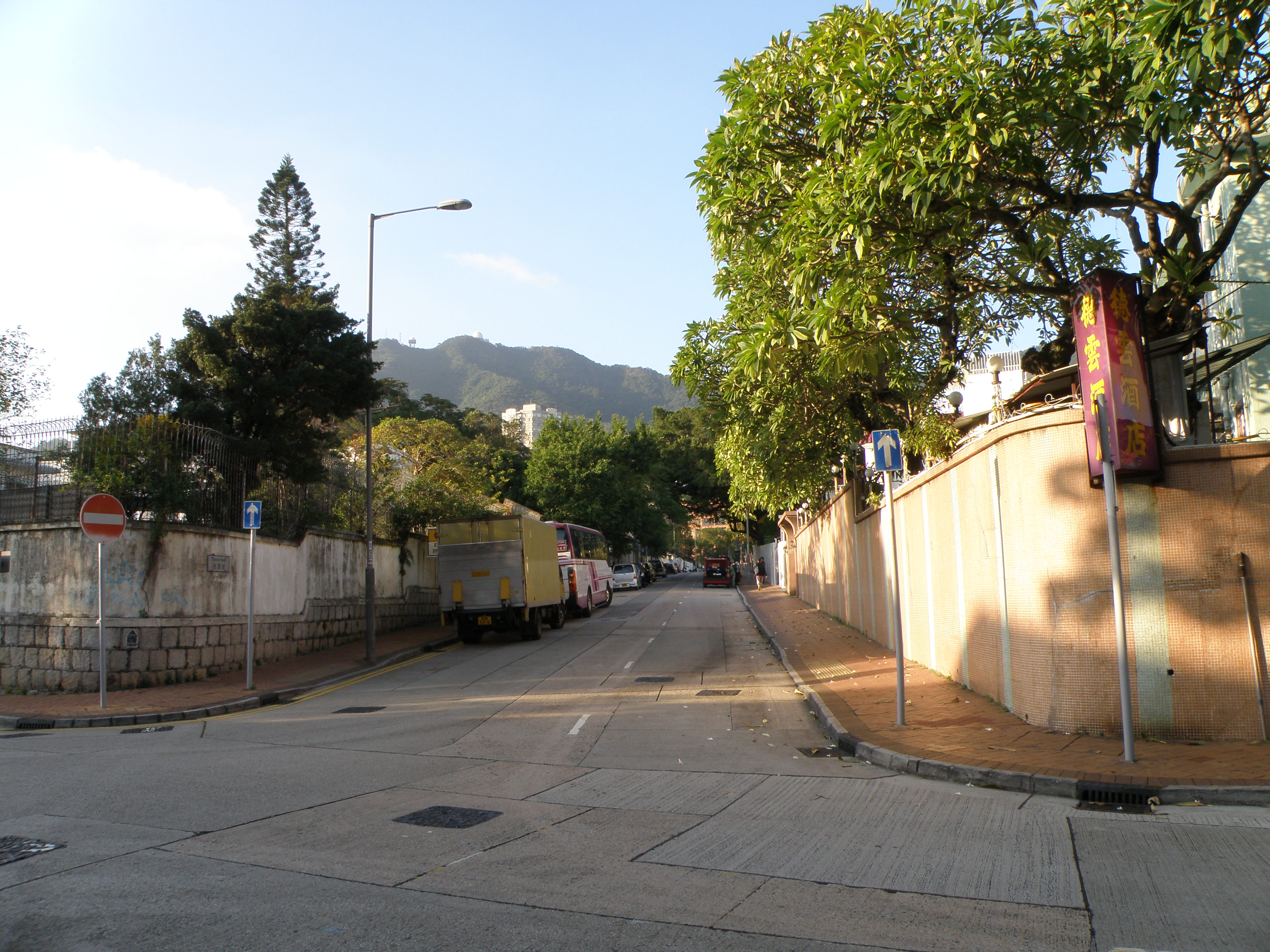 Devon Road in Kowloon Tong, Hong Kong.